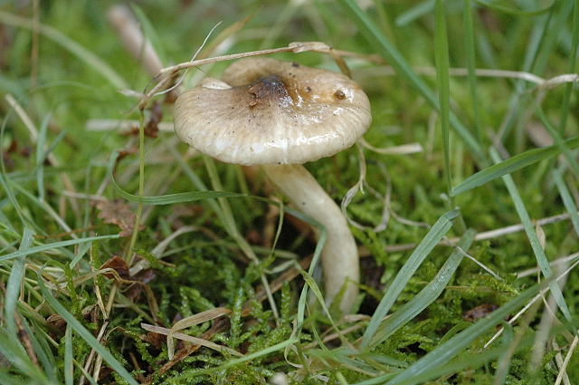 Hygrophorus olivaceoalbus from Commanster, Belgium. The determination of the species shown in this picture has been verified.